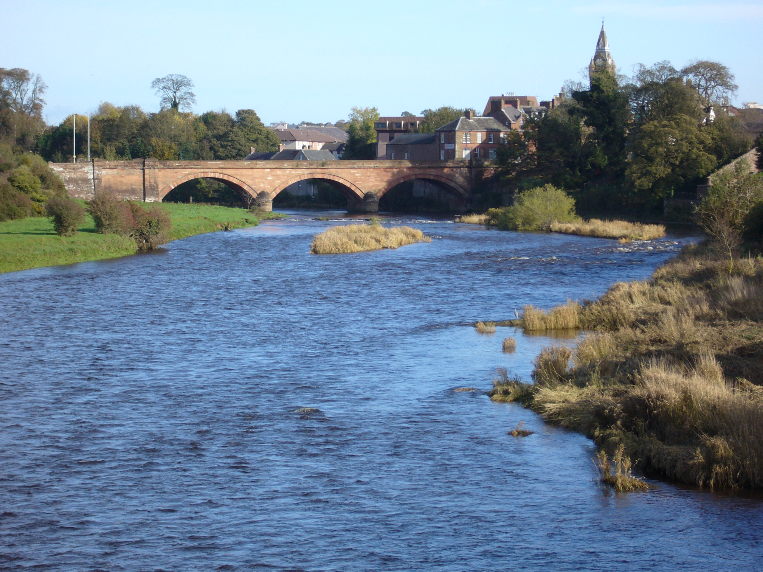 Photo taken by myself 29/10/06 of the River Annan, facing upstream towards the 3-arch road-bridge entering the western side of Annan.